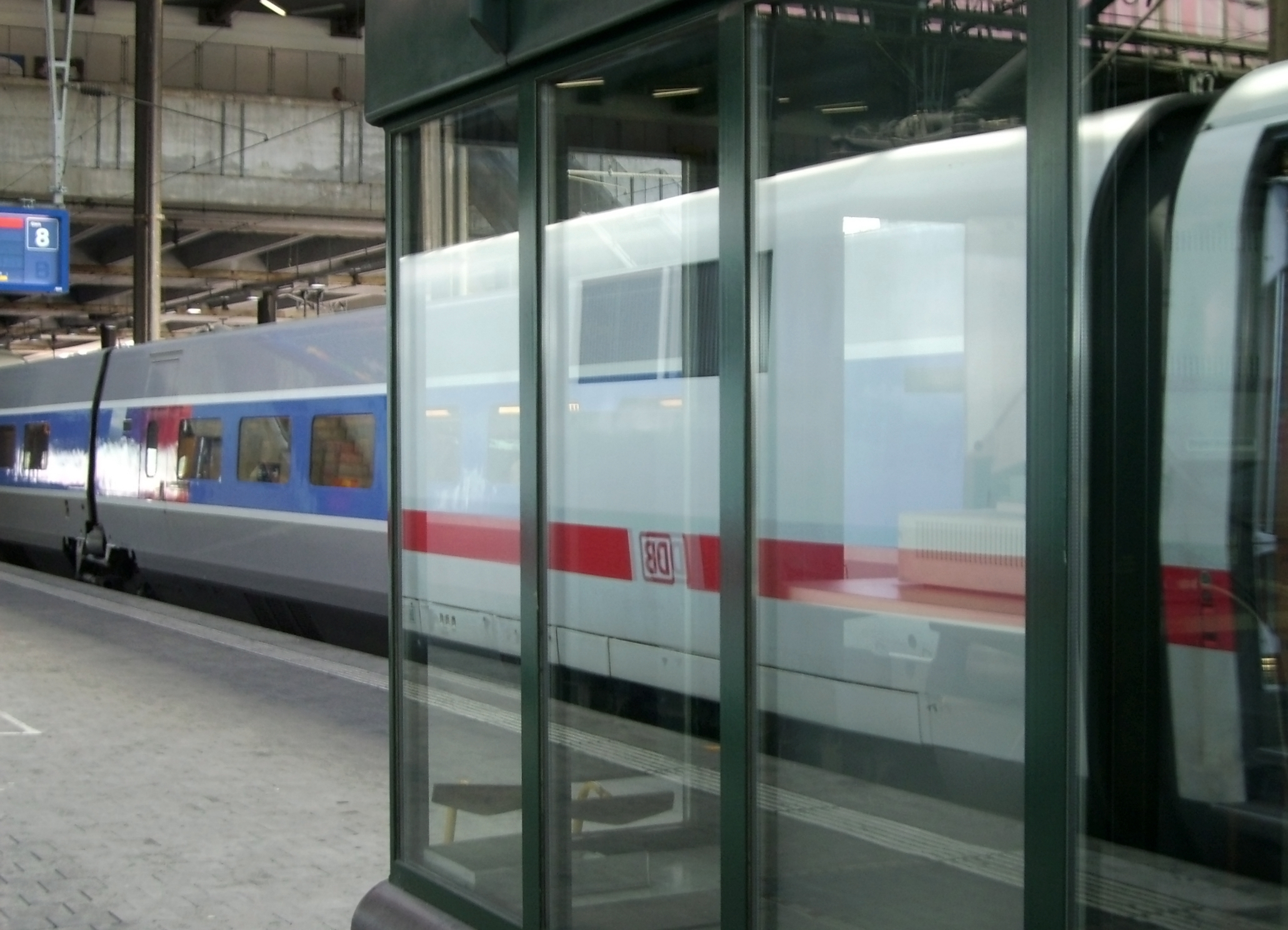 ICE and TGV in the Basel SBB railway station